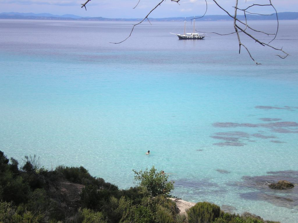 Karvourotripes Beach, Sithonia, Chalcidice, Greece.